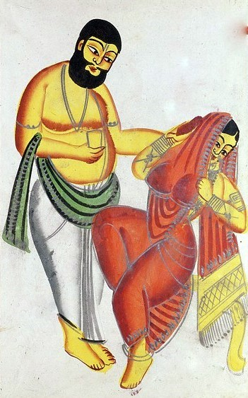 Mahant offers Ekokeshi childbirth medicine